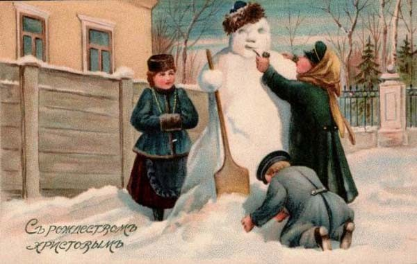 Christmas card of Russia